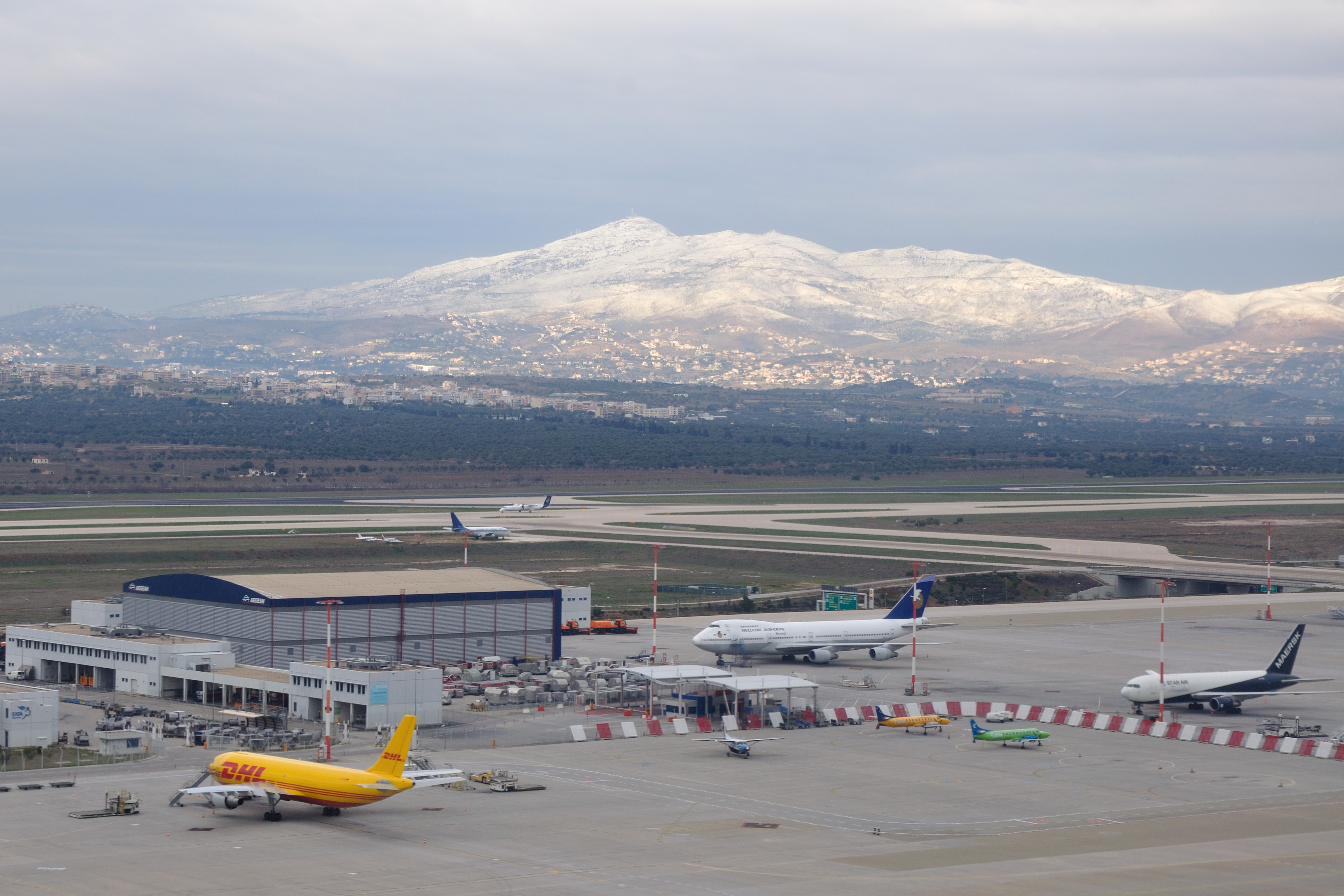 Greece, landing at Athens International Airport on a chilly February day